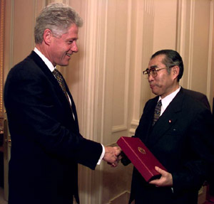 Bill Clinton and Keizo Obuchi in Tokyo, November 20, 1998.